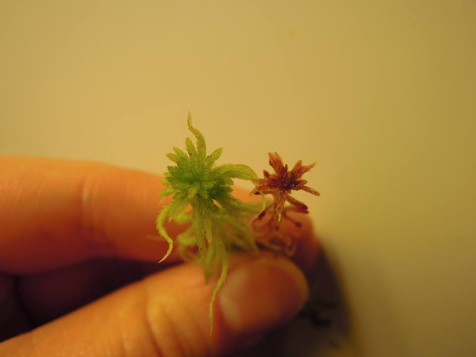 Two individuals of different Sphagnum species. The upper part is shown, so that the Capitula is visible.